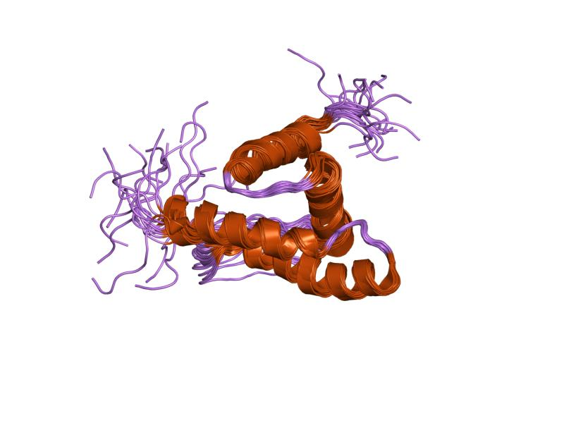 Cartoon representation of the molecular structure of protein registered with 2f76 code.